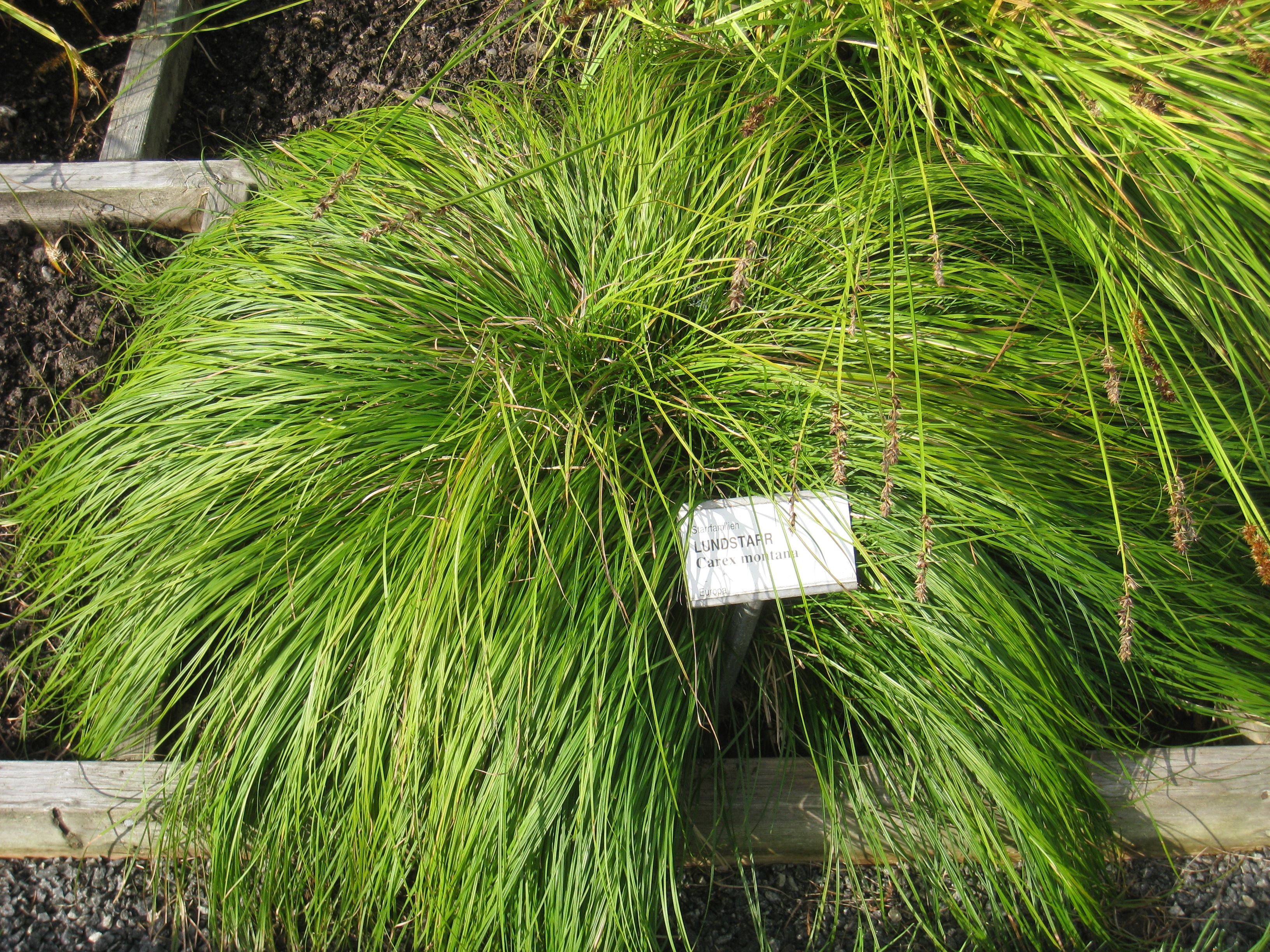 Carex montana - Oslo botanical garden, Oslo, Norway.